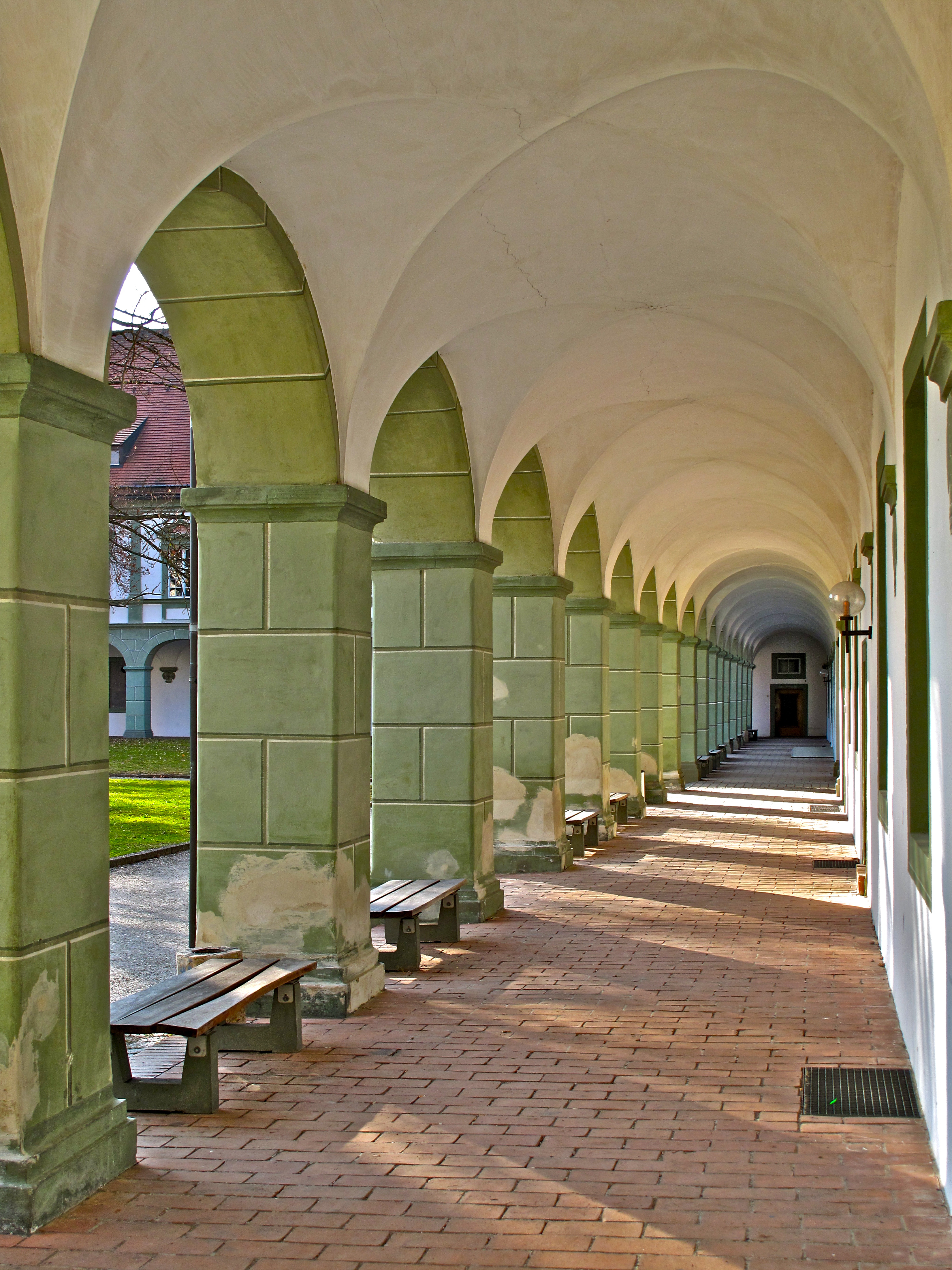 Colonnade of Benediktbeuern Abbey in Benediktbeuern, Upper Bavaria, Germany.